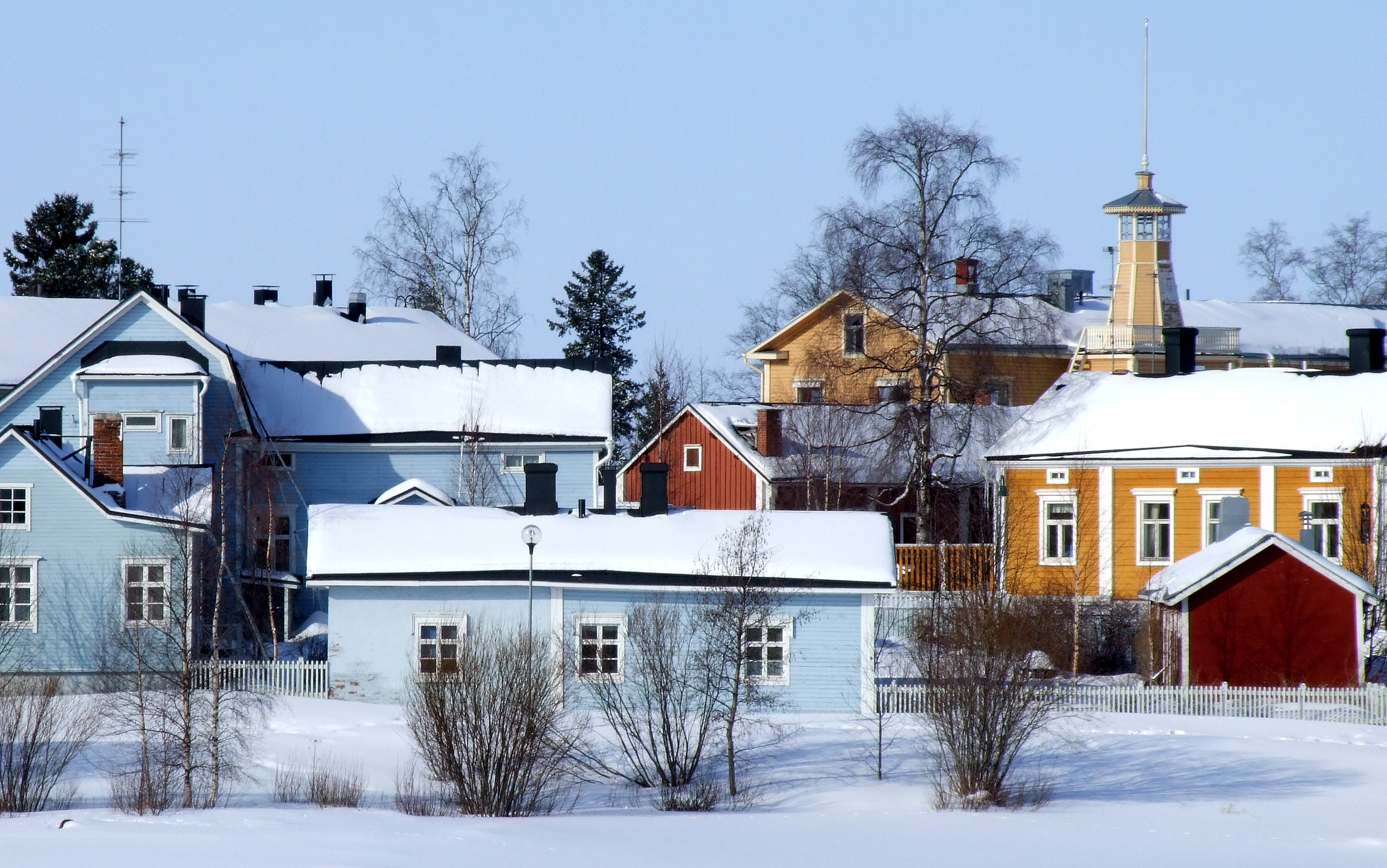 Pikisaari island, Oulu, Finland